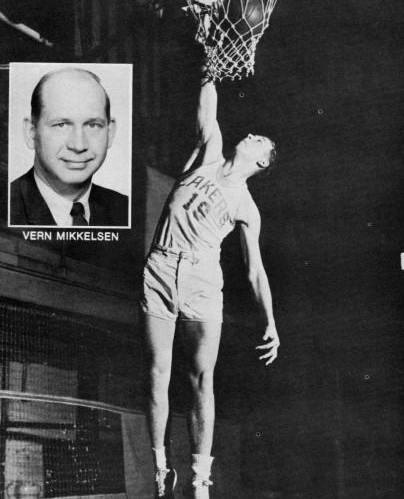 Professional basketball player Vern Mikkelsen